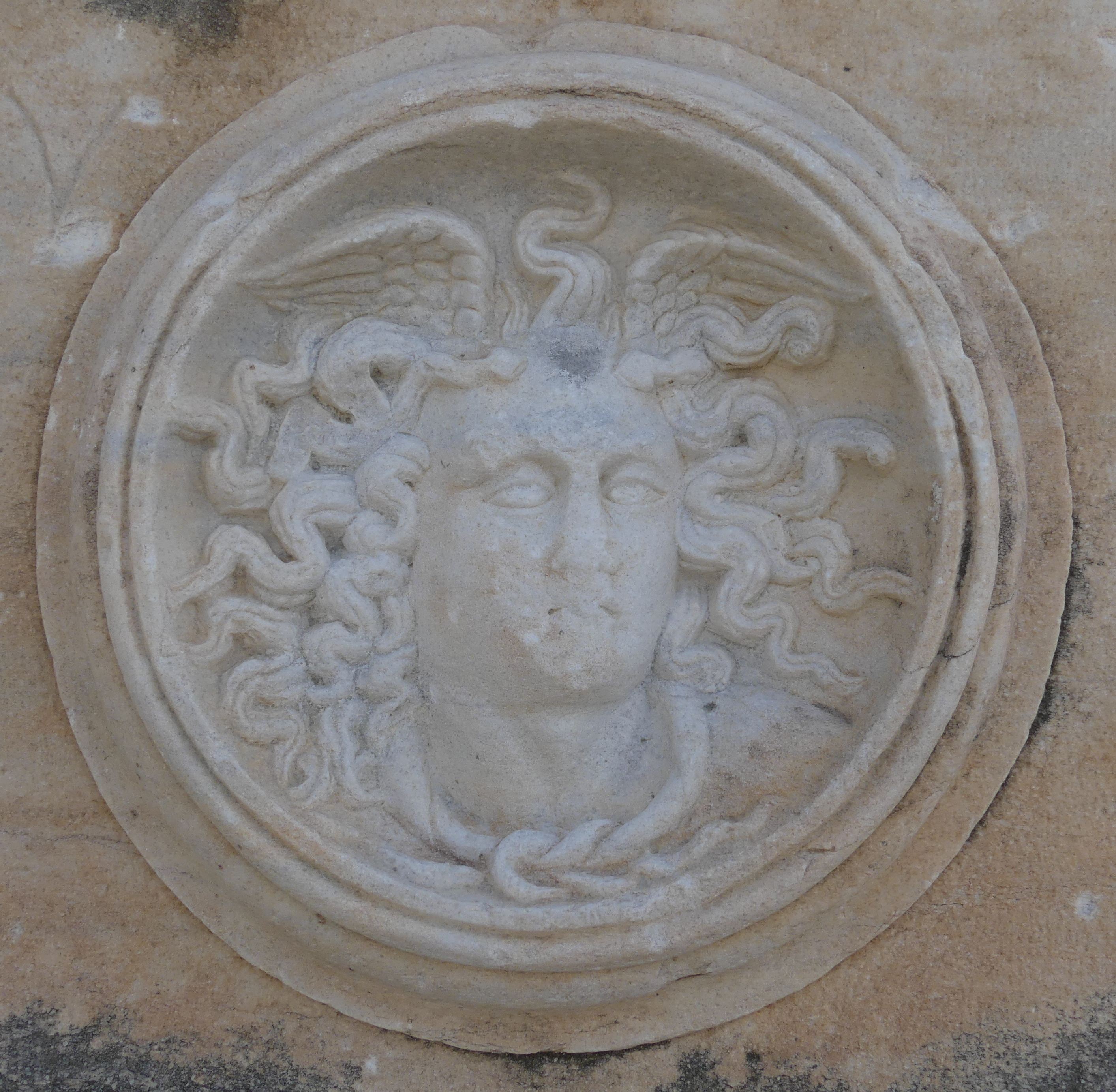 Relief on the Roman period sarcophagus of Antipater in the Al Mina / City site of Tyre/Sour, Southern Lebanon